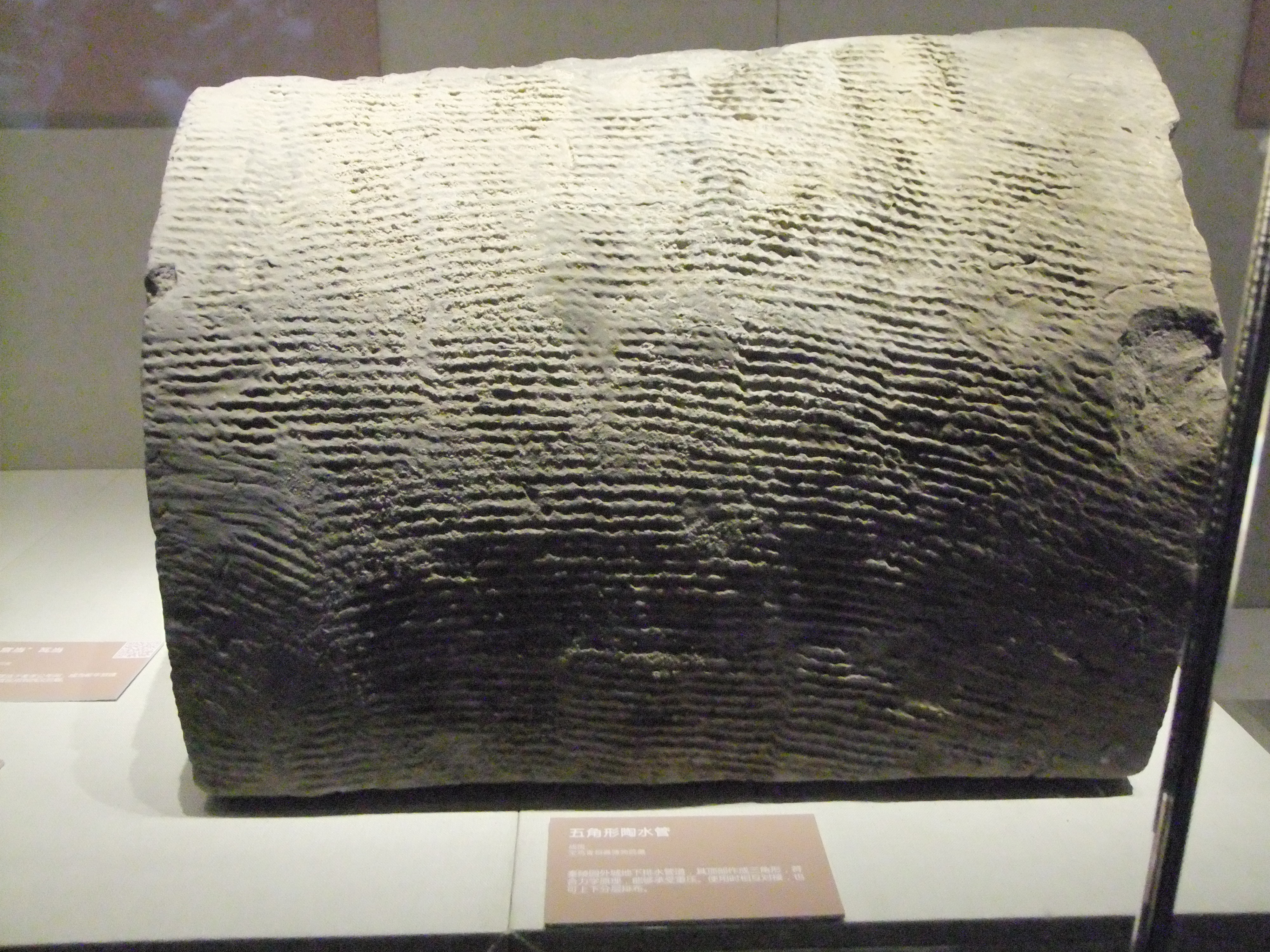 Pottery water pipe of quinquangular design, Warring States (475-221 BC). Unearthed in the Mausoleum of the First Qin Emperor. It is preserved in the Baoji Bronzeware Museum.